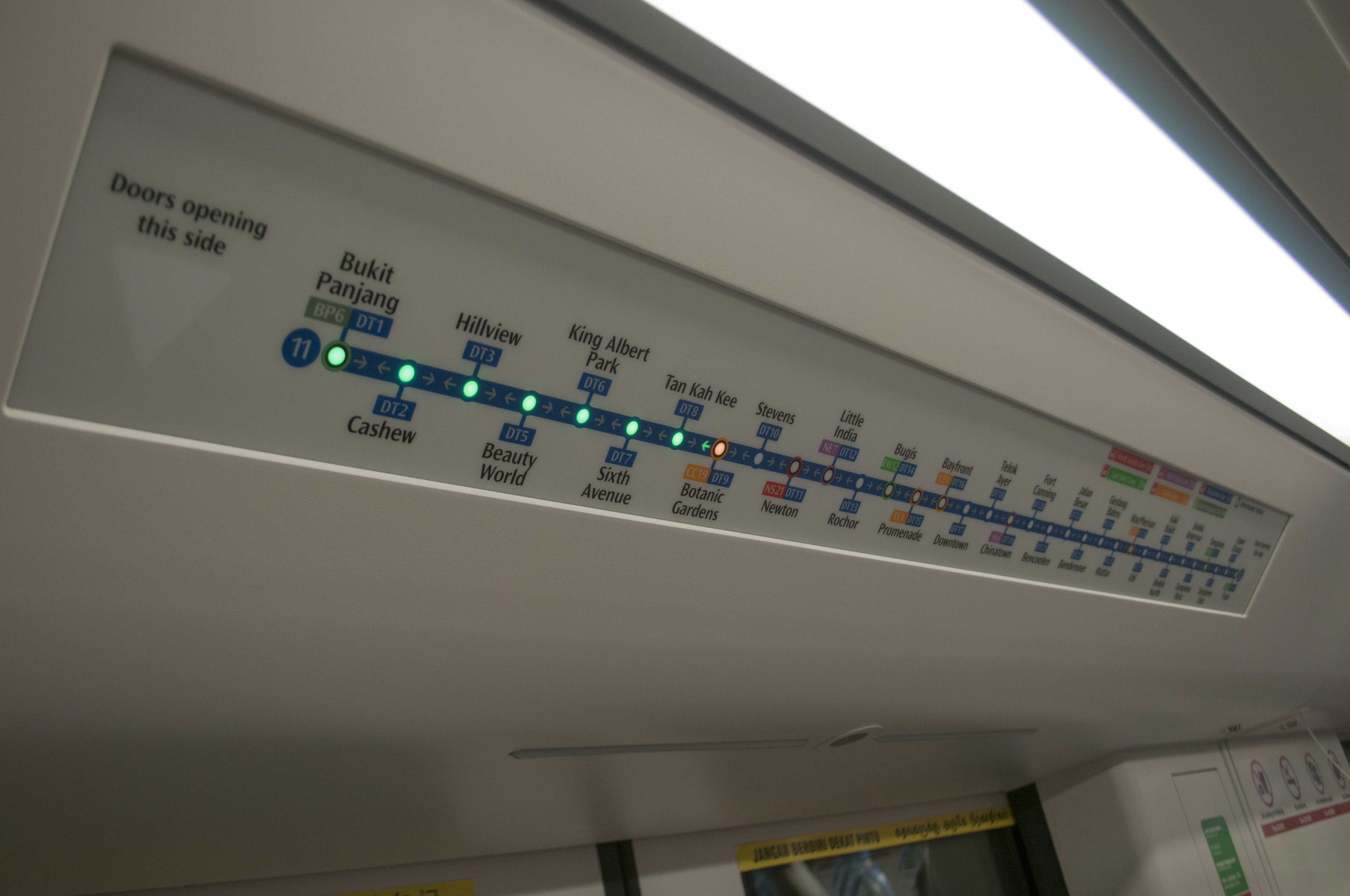 Active Route Map Information System of Downtown Line in Singapore